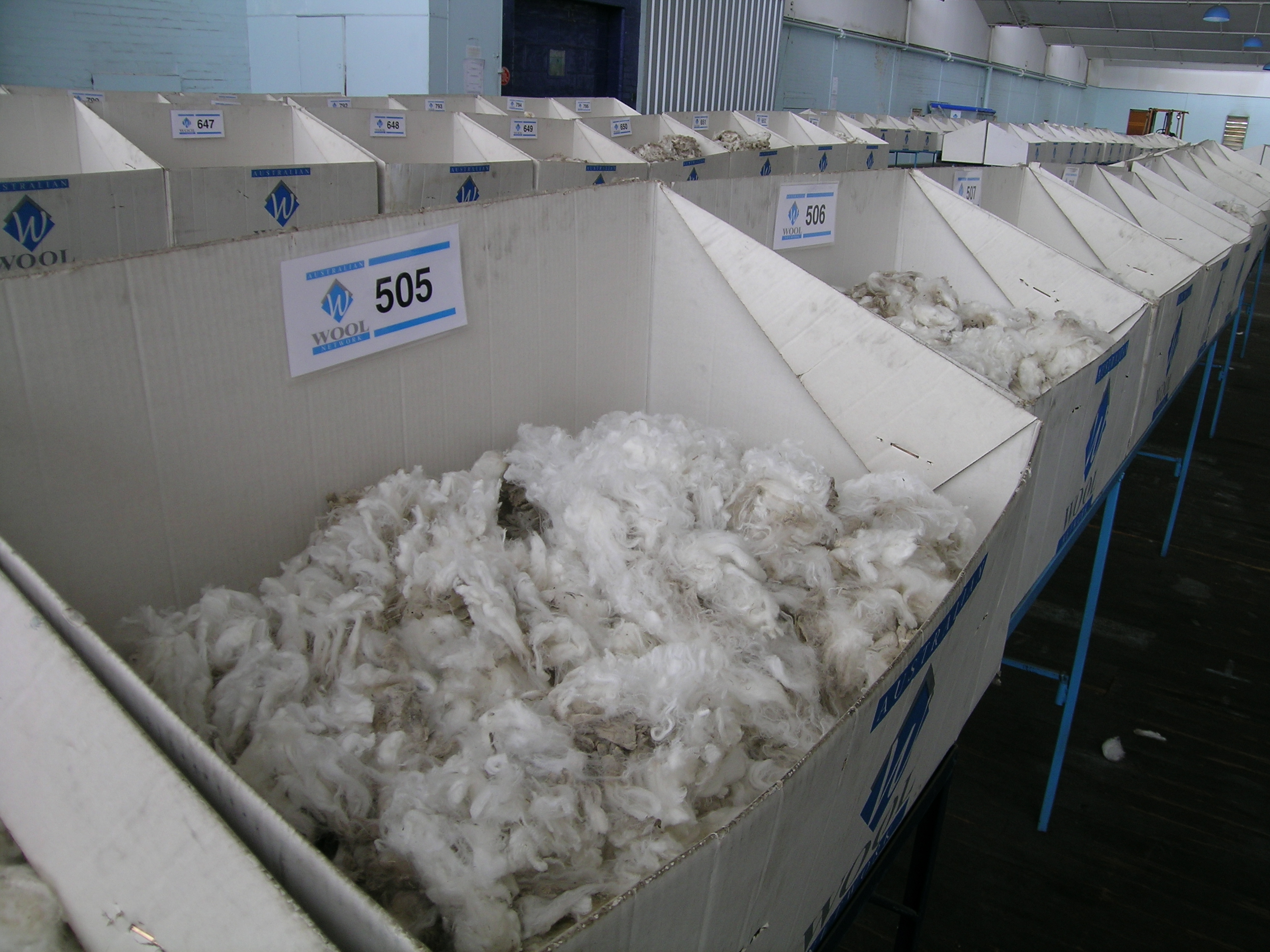 Merino wool samples that were sold by auction, Newcastle, NSW. 17.1 micron wool in foreground.